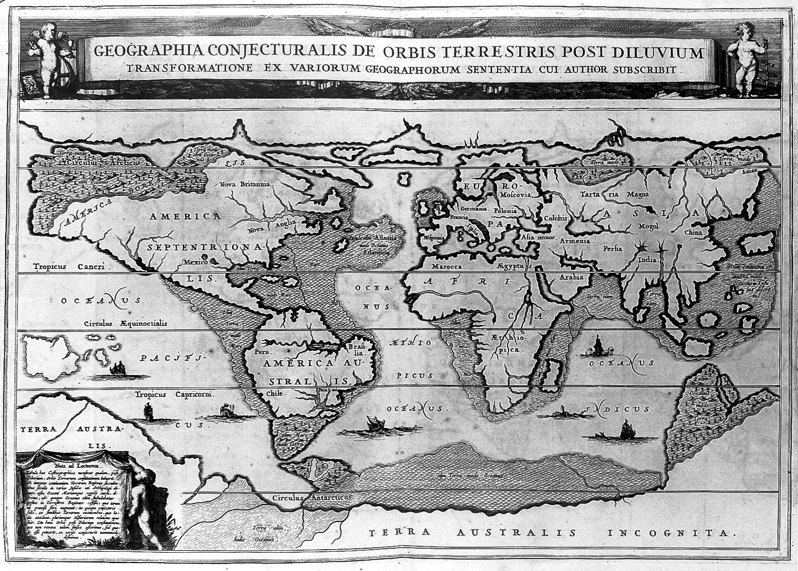 Geography of world after flood. Rare Books Keywords: Athanasius Kircher